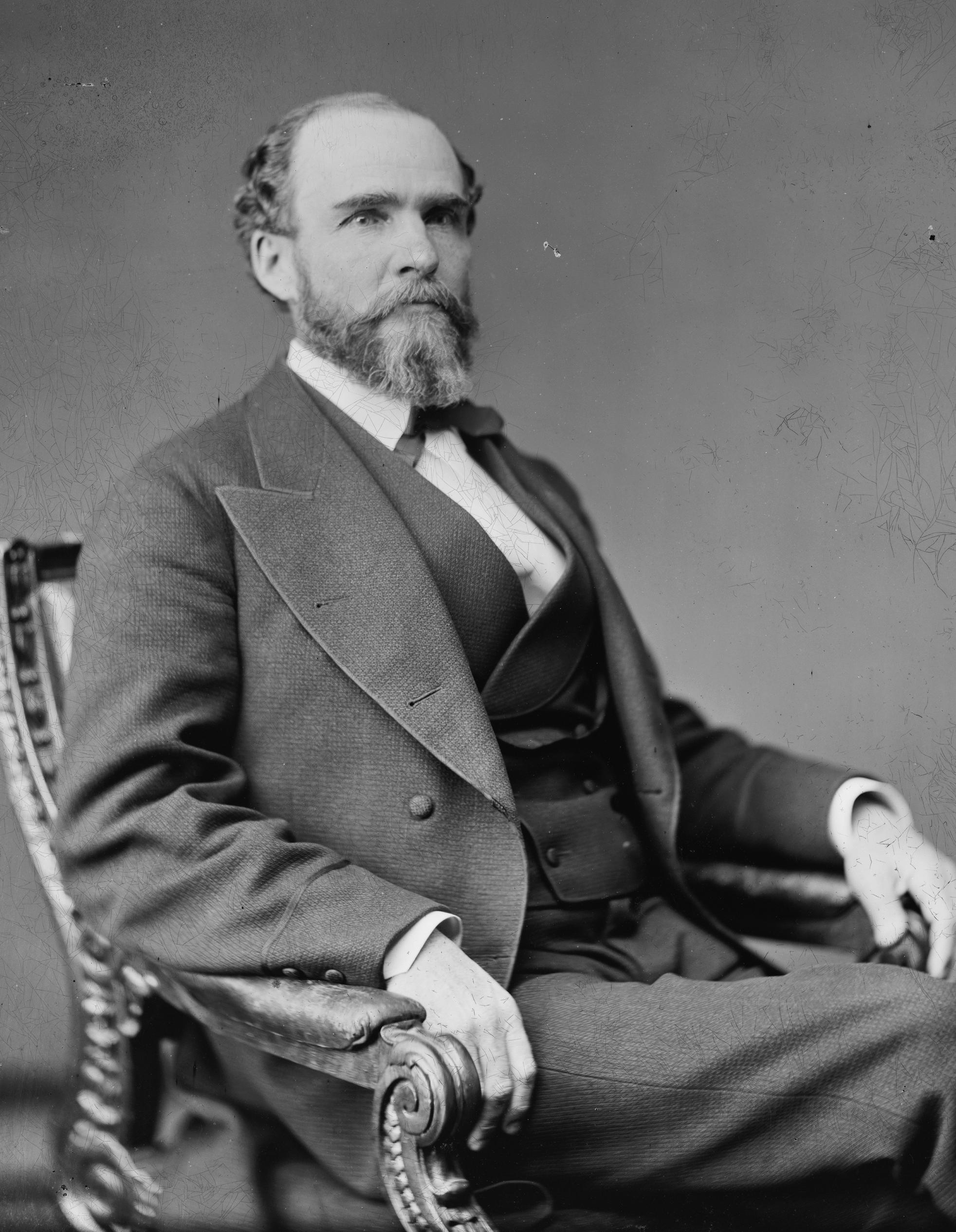 Thomas M. Norwood. Library of Congress description: "Norwood, Hon. Thomas Manson".